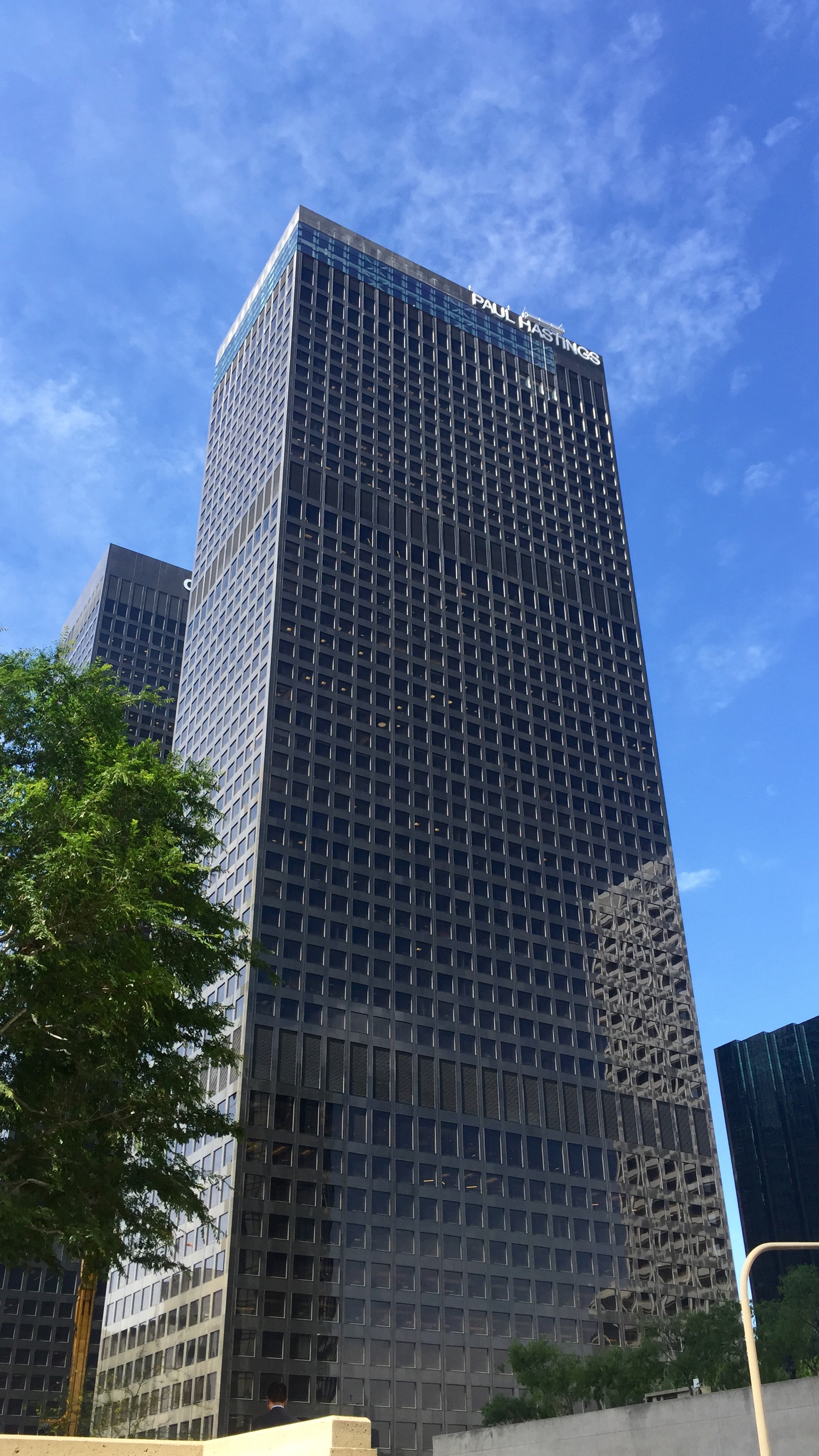 Paul Hastings Tower Gets New facade at the 51-52 floors , this update began in december of 2015